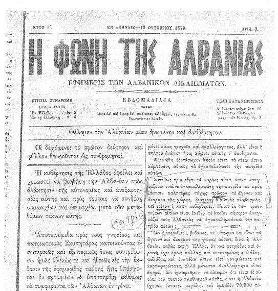 Η φωνή της Αλβανίας (Voice of Albania) newspaper front page, 1879.jpg. Publisher Anastas Kulluriotis ( Αναστάσιος Κουλουριώτης, 1822–1887)